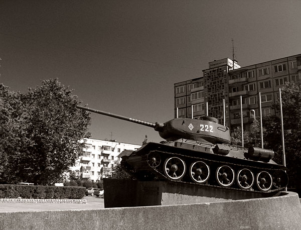 World War II T-34 tank in Kaliningrad